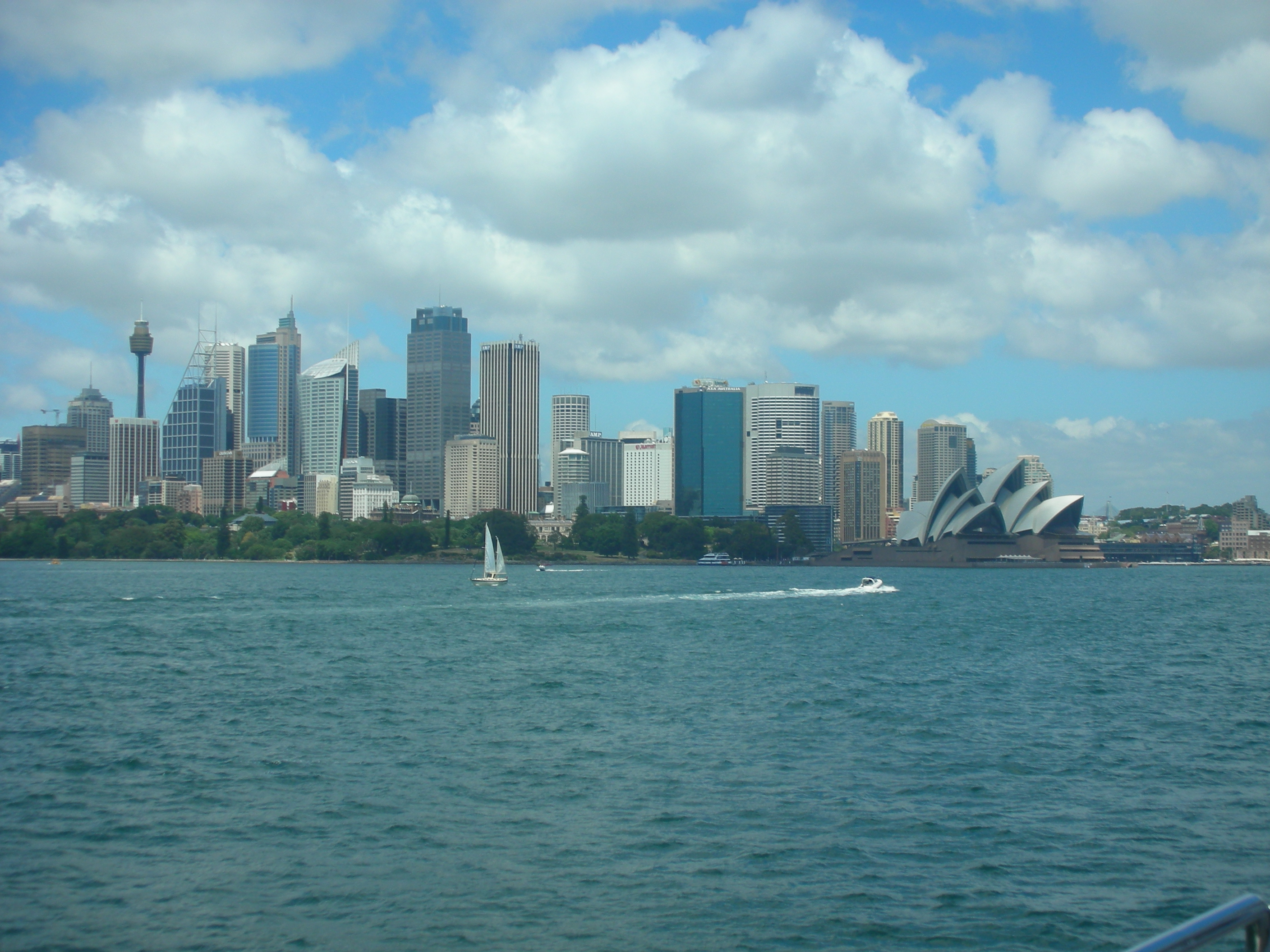 Circular Quay, Sydney